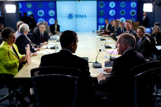 President Barack Obama confers with Homeland Security adviser John Brennan at the conclusion of a hurricane preparedness meeting at FEMA headquarters in Washington Friday, May 29, 2009. At left is Homeland Security Secretary Janet Napolitano.